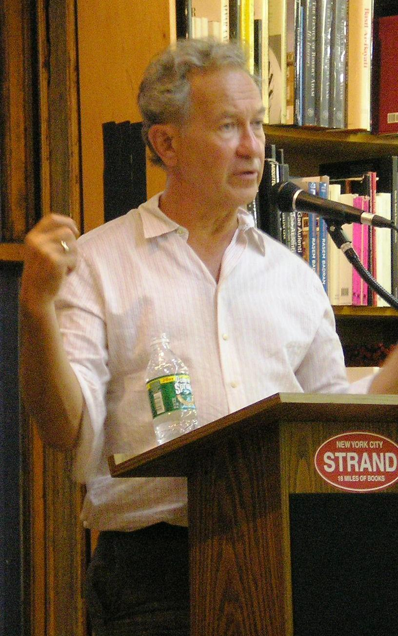 This image is of Simon Schama at Strand Book Store, New York City. taken August 15, 2006.